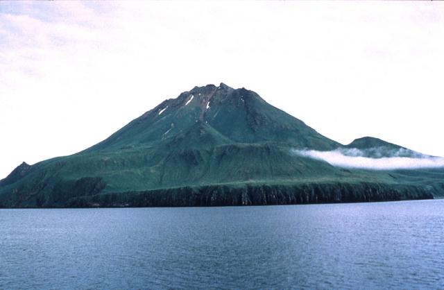 A photo of Uliaga Island, Aleutian Islands, Alaska.